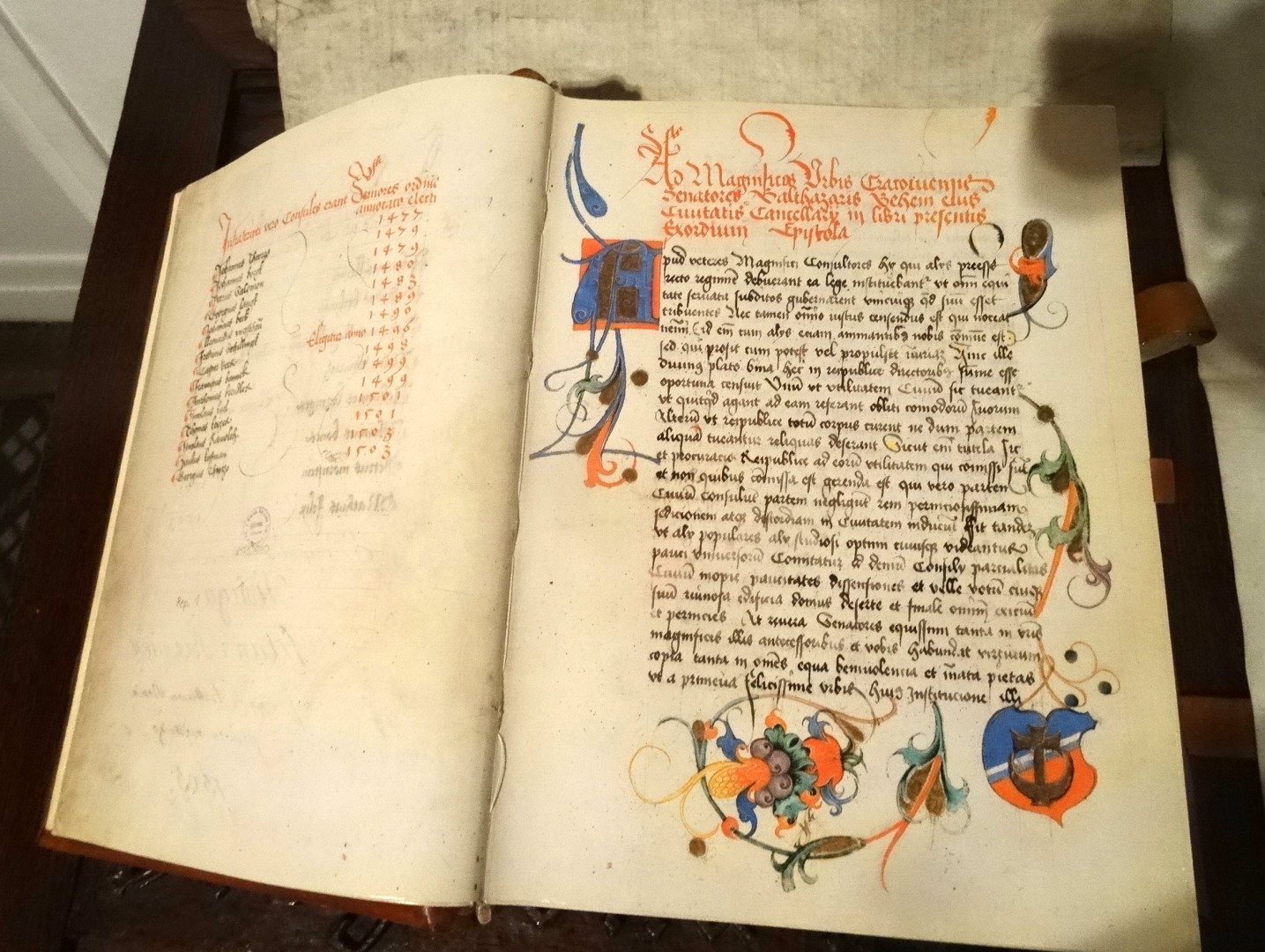 Library of Bydgoszcz Bernardine (XV-18th c.) In the area of the Provincial and Municipal Public Library in Bydgoszcz